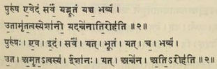 Hymn 10.90 of the Rigveda (Purusha sukta), verses 1 and 2 with commentary, page of Rig-Veda-sanhita, the Sacred Hymns of the Brahmans by Friedrich Max Müller (ed.), London, (1849-75, 1974 reprint). :1a sahásraśīrṣā púruṣaḥ sahasrākṣáḥ sahásrapāt : c sá bhûmiṃ viśváto vṛtvâty atiṣṭhad daśāṅgulám : a sahásraśīrṣā púruṣaḥ b sahasrākṣáḥ sahásrapāt : c sá bhûmim viśvátaḥ vṛtvâ d áti atiṣṭhat daśāṅgulám :"A thousand heads hath Purusa, a thousand eyes, a thousand feet. :On every side pervading earth he fills a space ten fingers wide." :2a púruṣa evédáṃ sárvaṃ yád bhūtáṃ yác ca bhávyam : c utâmṛtatvásyéśāno yád ánnenātiróhati : a púruṣaḥ evá idám sárvam b yát bhūtám yát ca bhávyam : c utá amṛtatvásya îśānaḥ d yát ánnena atiróhati :"This Purusa is all that yet hath been and all that is to be; :The Lord of Immortality which waxes greater still by food."